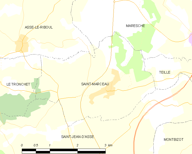 Map of French municipality